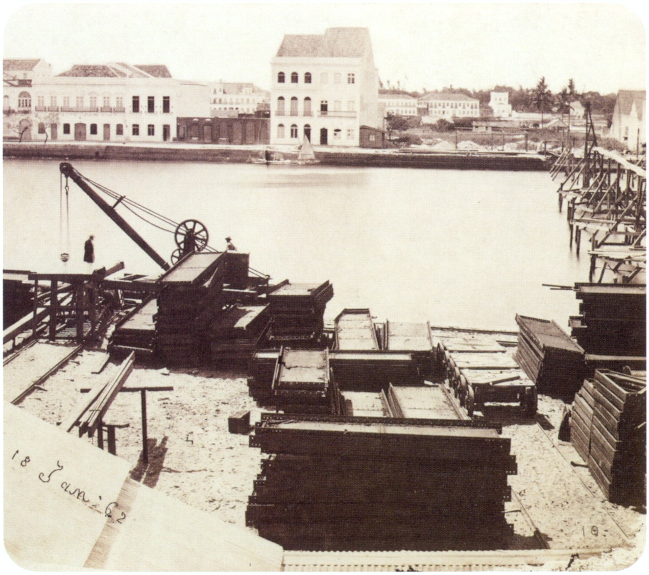 Construction site in the docks of Recife, capital of Pernambuco province, 1862.